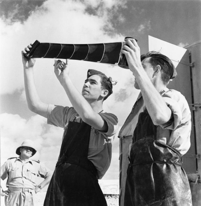 RAF photographers inspect a developed reconnaissance film at a landing ground in Egypt, September 1941. Airmen photographers inspect developed reconnaissance film from a Type F.24 aerial camera outside a photographic trailer at a landing ground in Egypt.